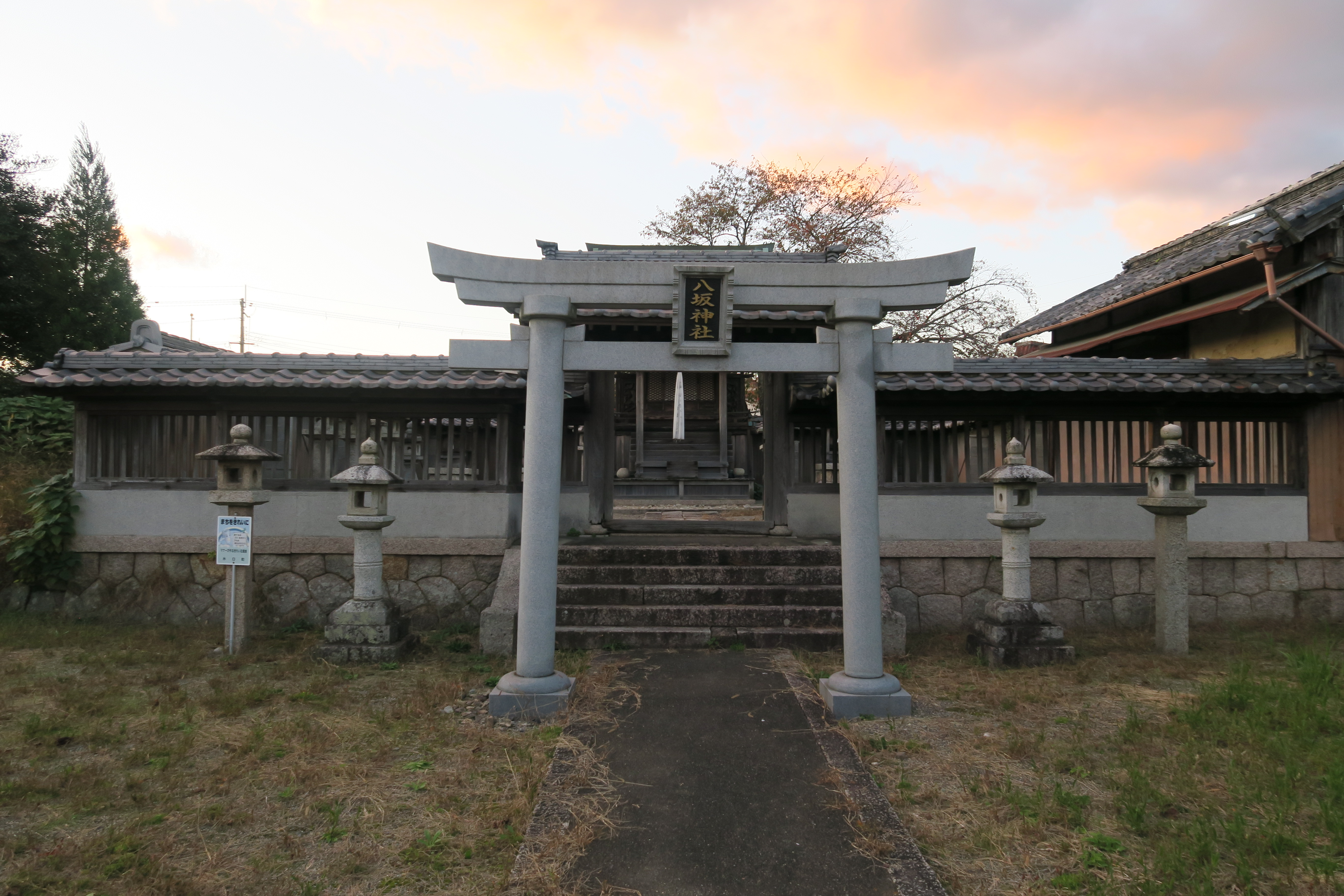 Yasaka jinja in Yasaka, Minakuchi, Koka, Shiga, Japan